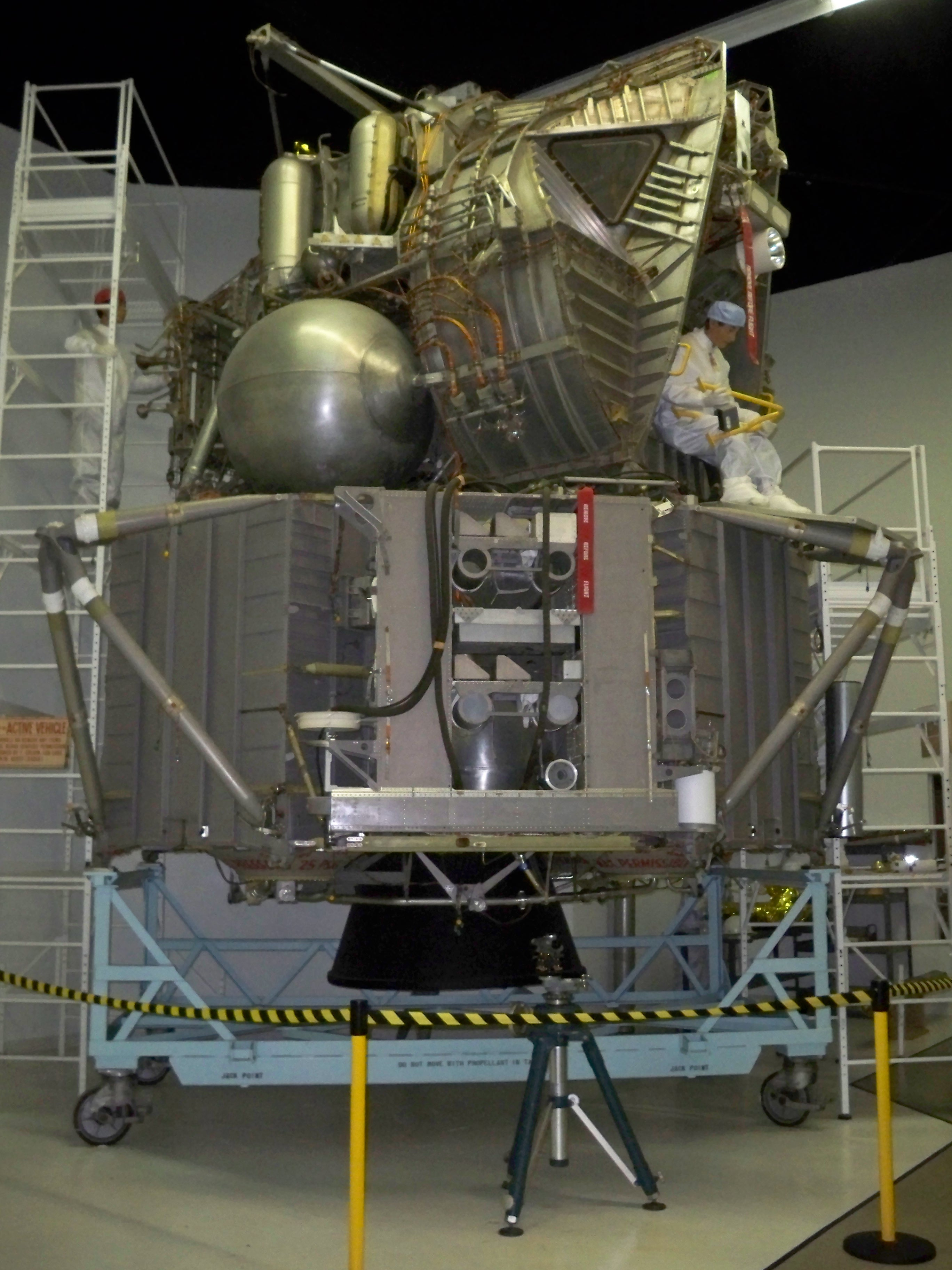 Model of the Lunar Lander being assembled at the Cradle of Aviation Museum on Long Island, NY.